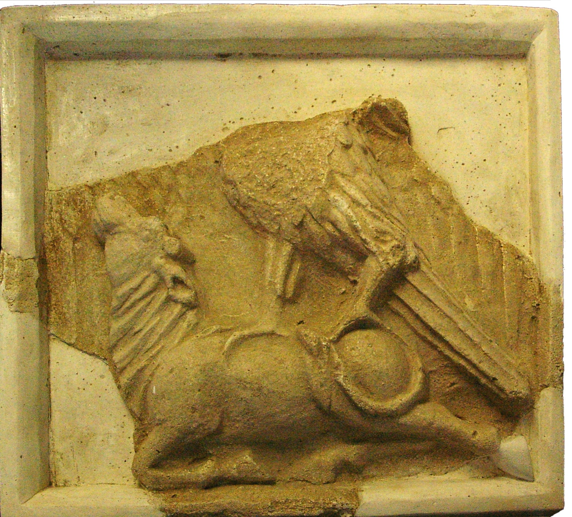 Stucco, Parthian dynasty, Zahhak castle, Hashtrud, Eastern Azerbaijan, Iran.